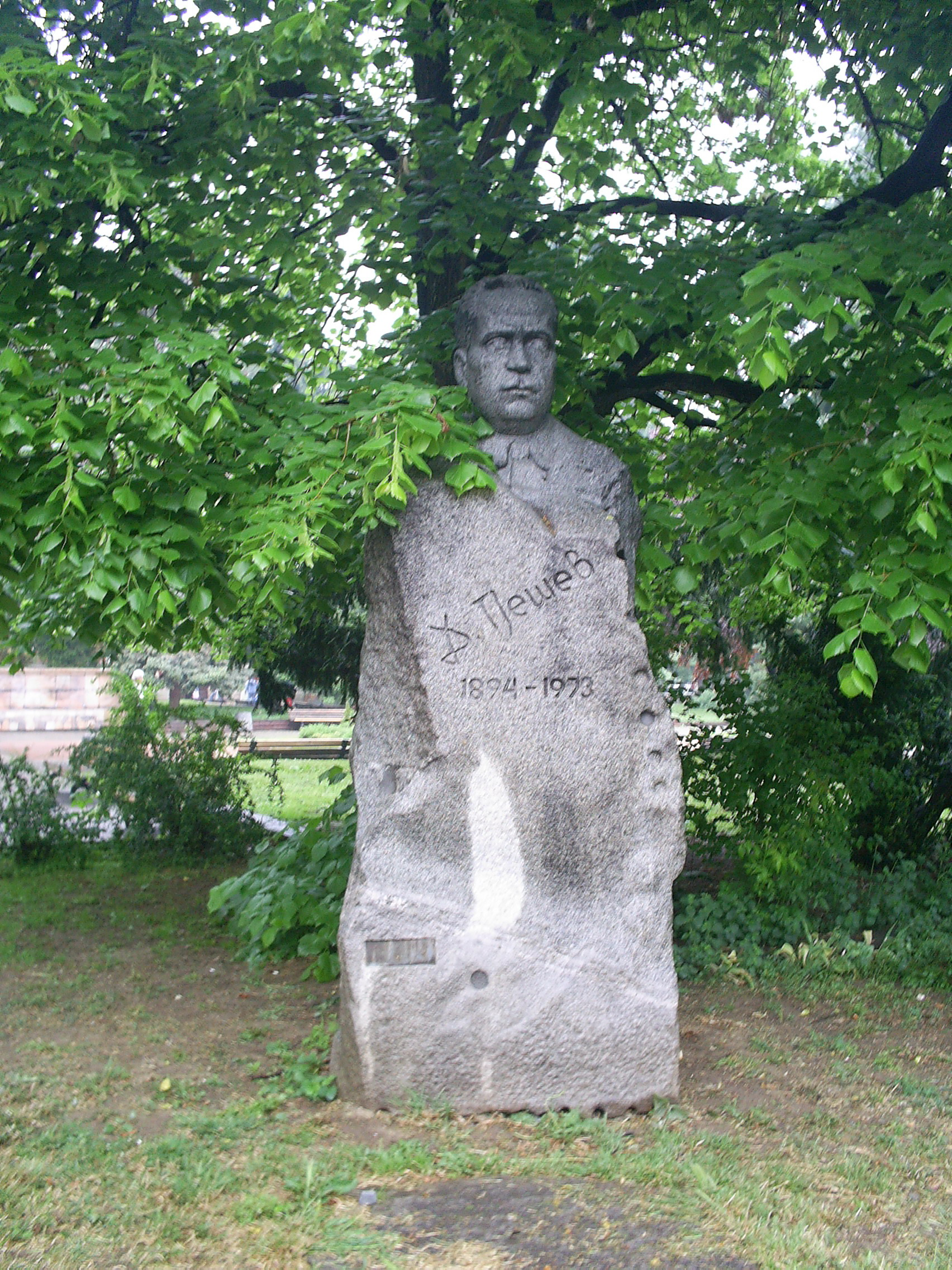 Monument of Dimitar Peshev, Kyustendil